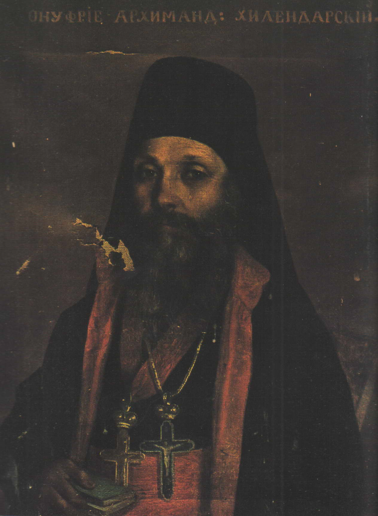 Portrait of the Hilendar Archimandrite Onufry Popovic, a native of the village of Enina, painted by Serbian artist Uroš Knezevic in 1854 in Belgrade. We have reached a colorful portrait photo near us. The original painting was destroyed during a large fire in the monastery in March 2004.